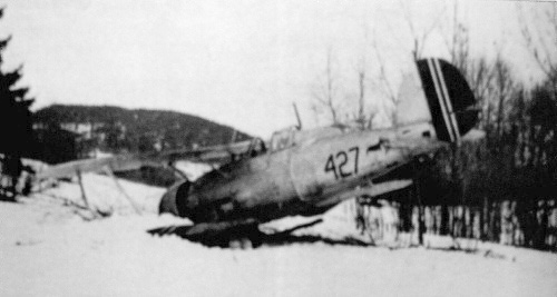 Norwegian Army Air Service Gloster Gladiator flown by Sergeant Pilot Kristian Fredrik Schye after forced landing near Oslo on 9 April, 1940